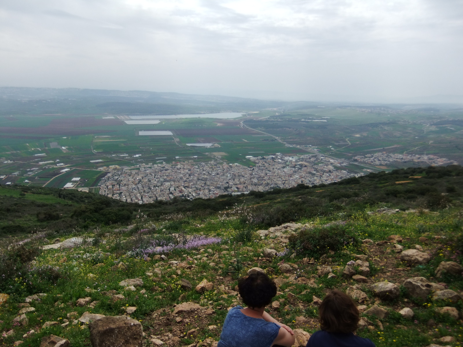 Kafr Manda from mount Atsmon